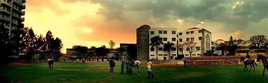 Nasr School HYD